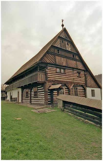 Dlasek's farm in Dolánky near Turnov, Czech Republic.